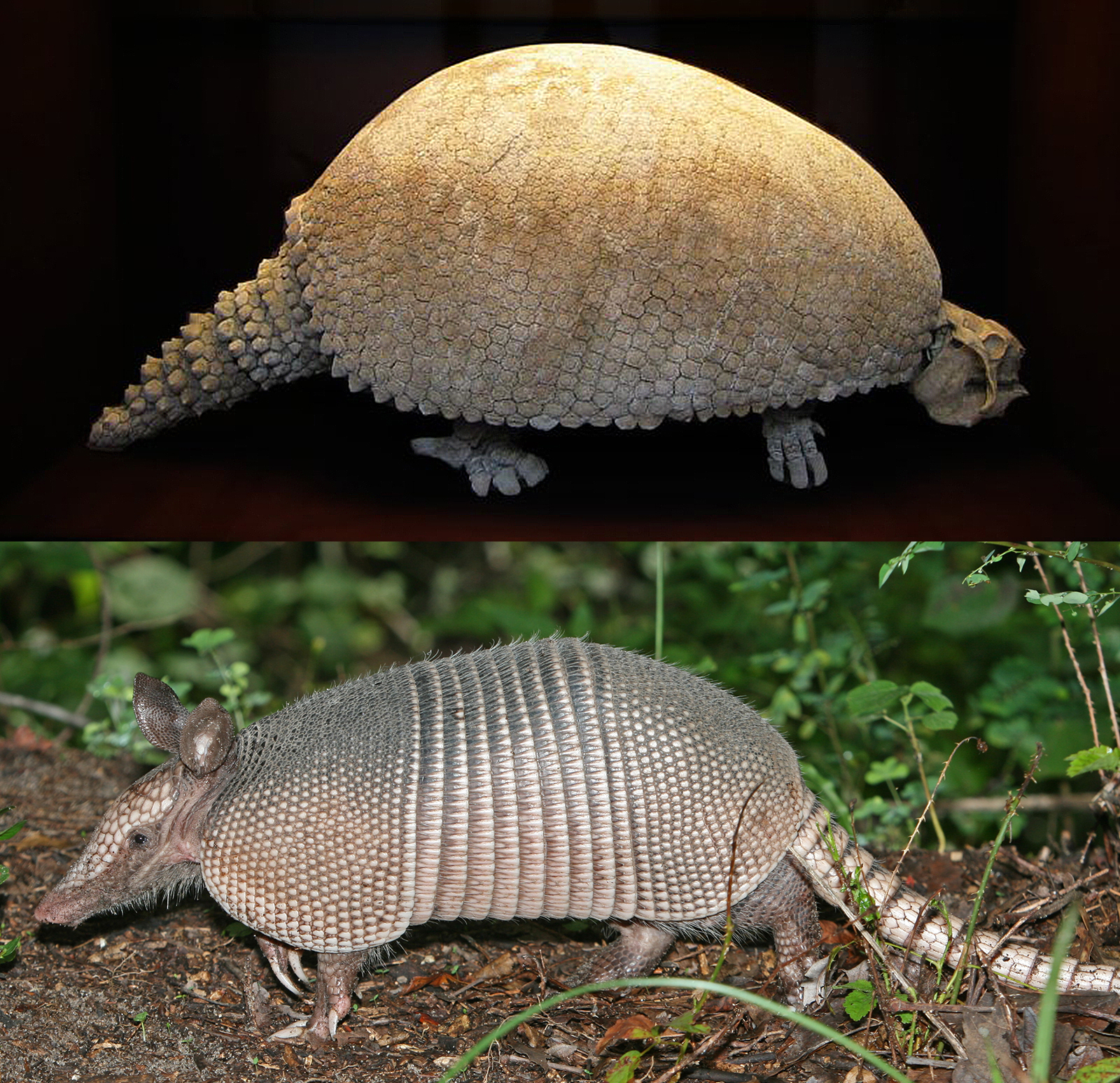 Examples of order Cingulata: Glyptodon (Naturhistorisches Museum, Vienna) and Dasypus novemcinctus (Florida). Uploader's notes: the original Glyptodon image was doubled in liner pixel density and sharpened; the original armadillo image was reduced in size and cropped.